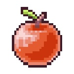 An apple in video game (NewtonAdventure), by Ails